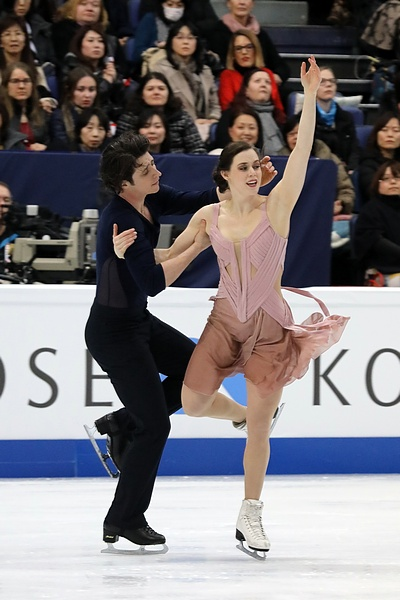 Tessa Virtue and Scott Moir at the 2017 World Championships